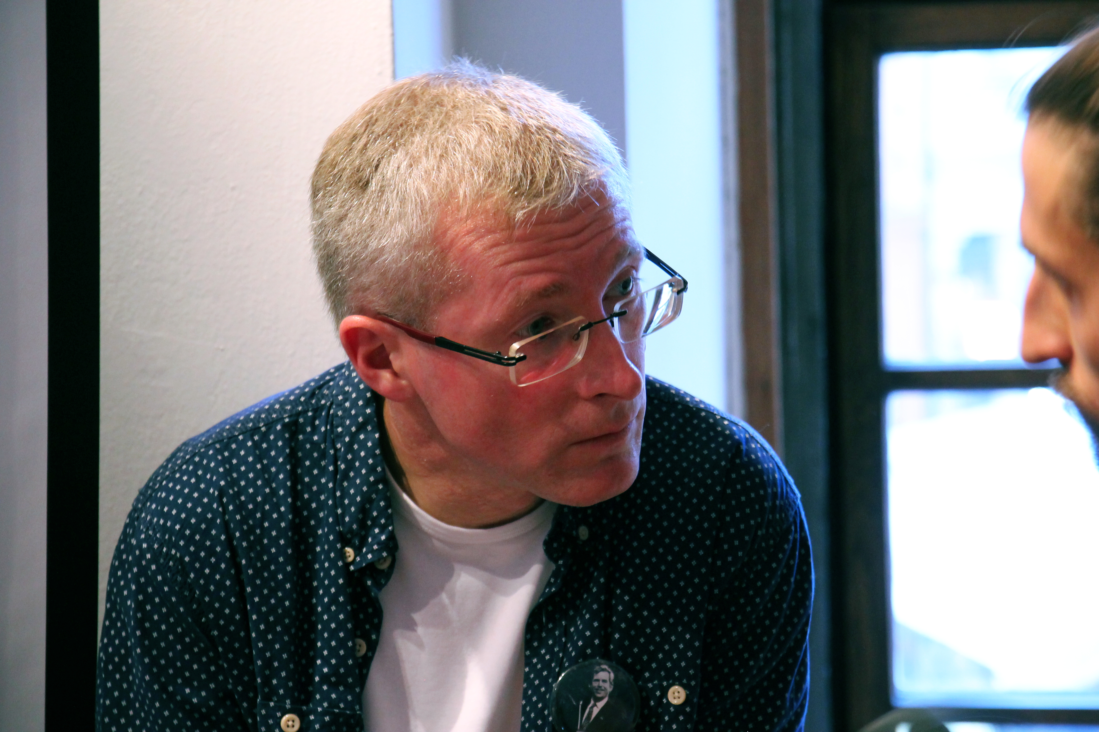 Marek „Orko“ Vácha giving speech at Scout Institute, Prague